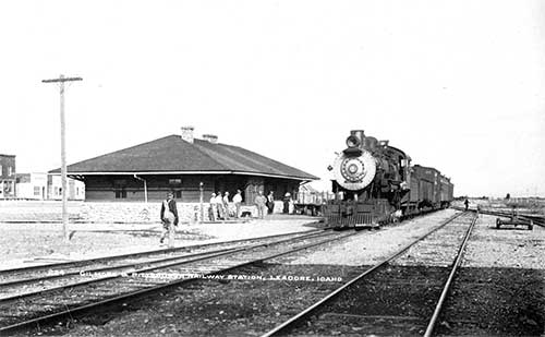 Postcard photo of a Gilmore and Pittsburgh train at the railway's depot in Leadore